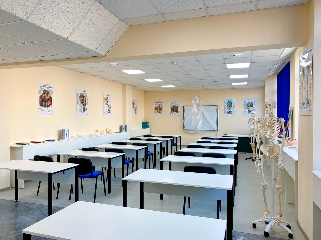 Classrooms - school of medicine